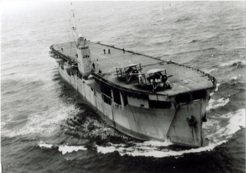 HNLMS Macoma during WWII